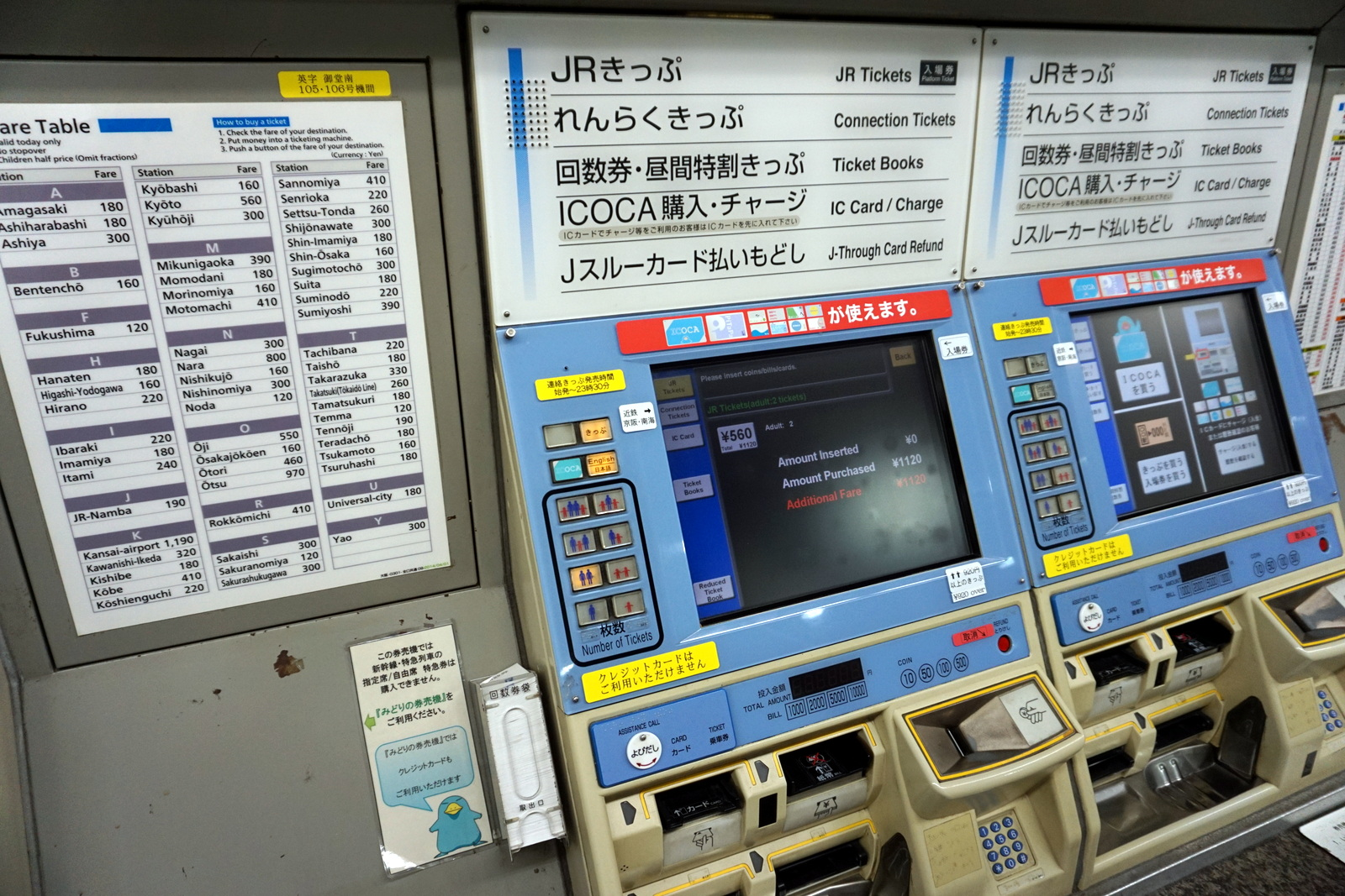 A JR West ticket vending machine at Osaka Station